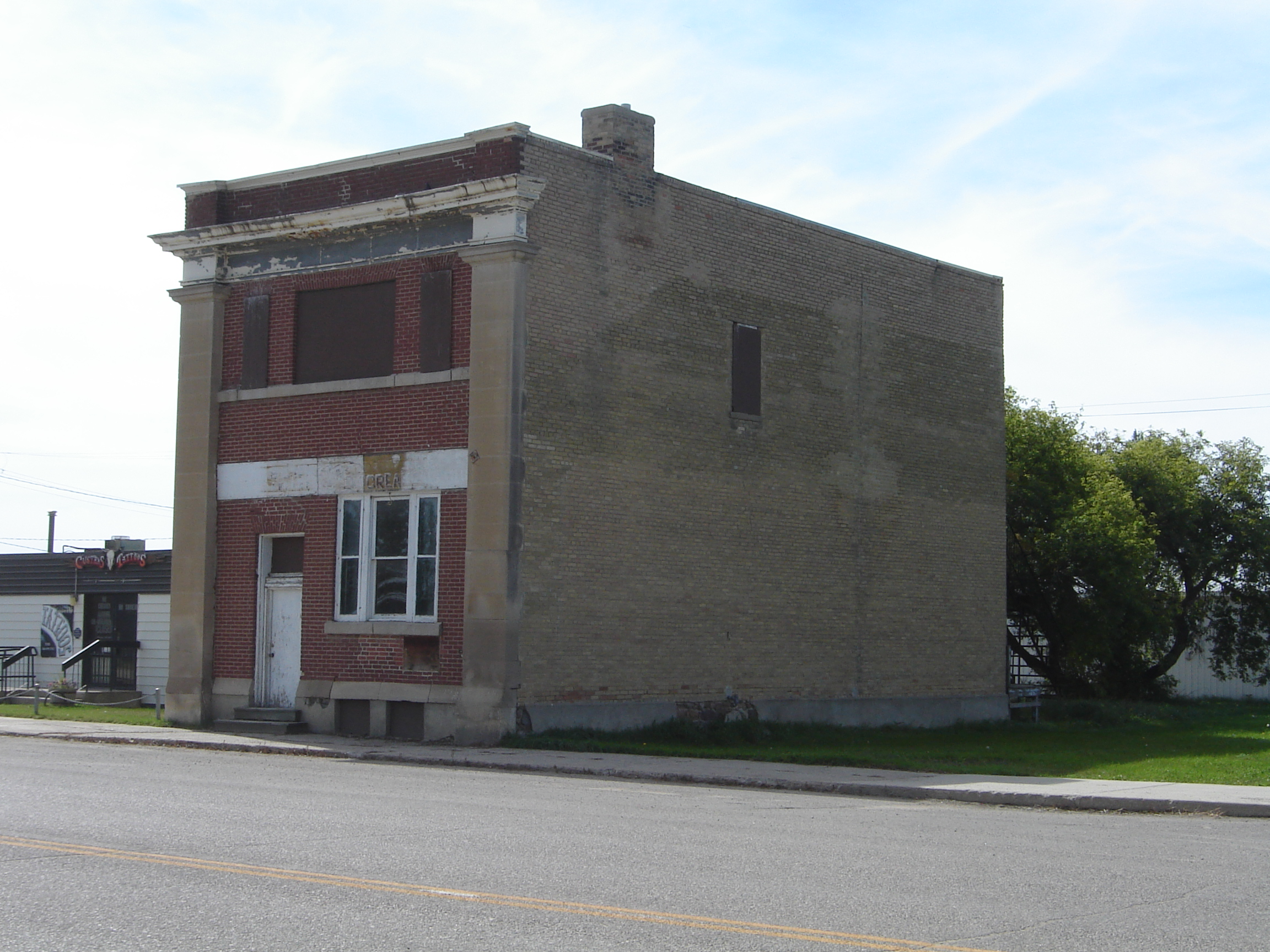 Qu'Appelle Saskatchewan [ Custers Tattoos] 2 Qu'Appelle St Qu'Appelle, SK S0G4A0